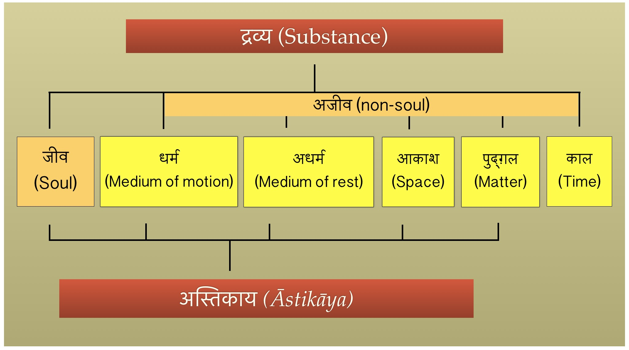 Six eternal substances (dravya) as per Jainism.